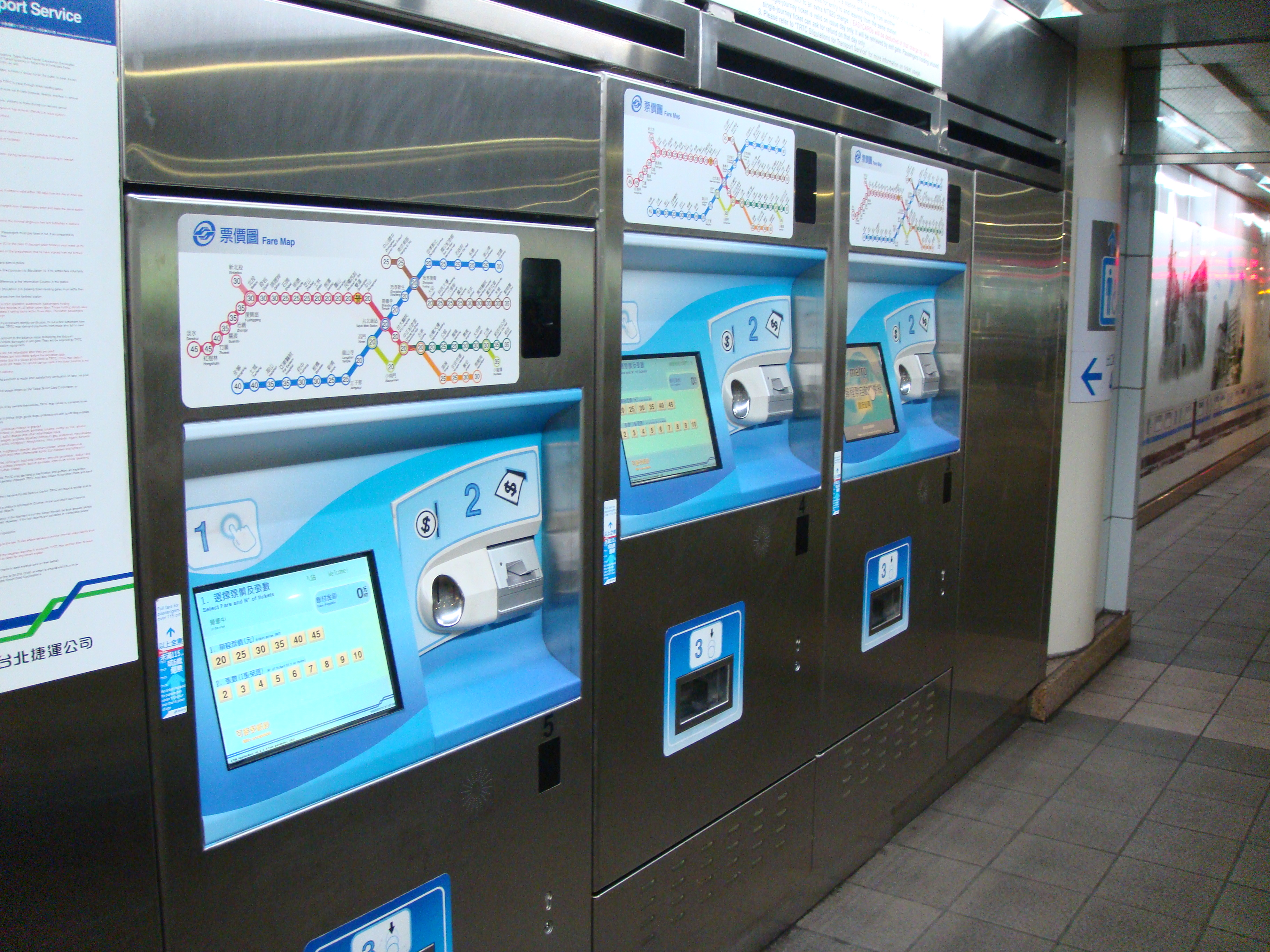 Single Trip Vending Machines, Shuanglian Station, Taipei Metro.